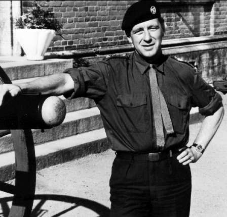 Colonel Lars Andersson, regimental commander of K 3 from 1983 to 1985.